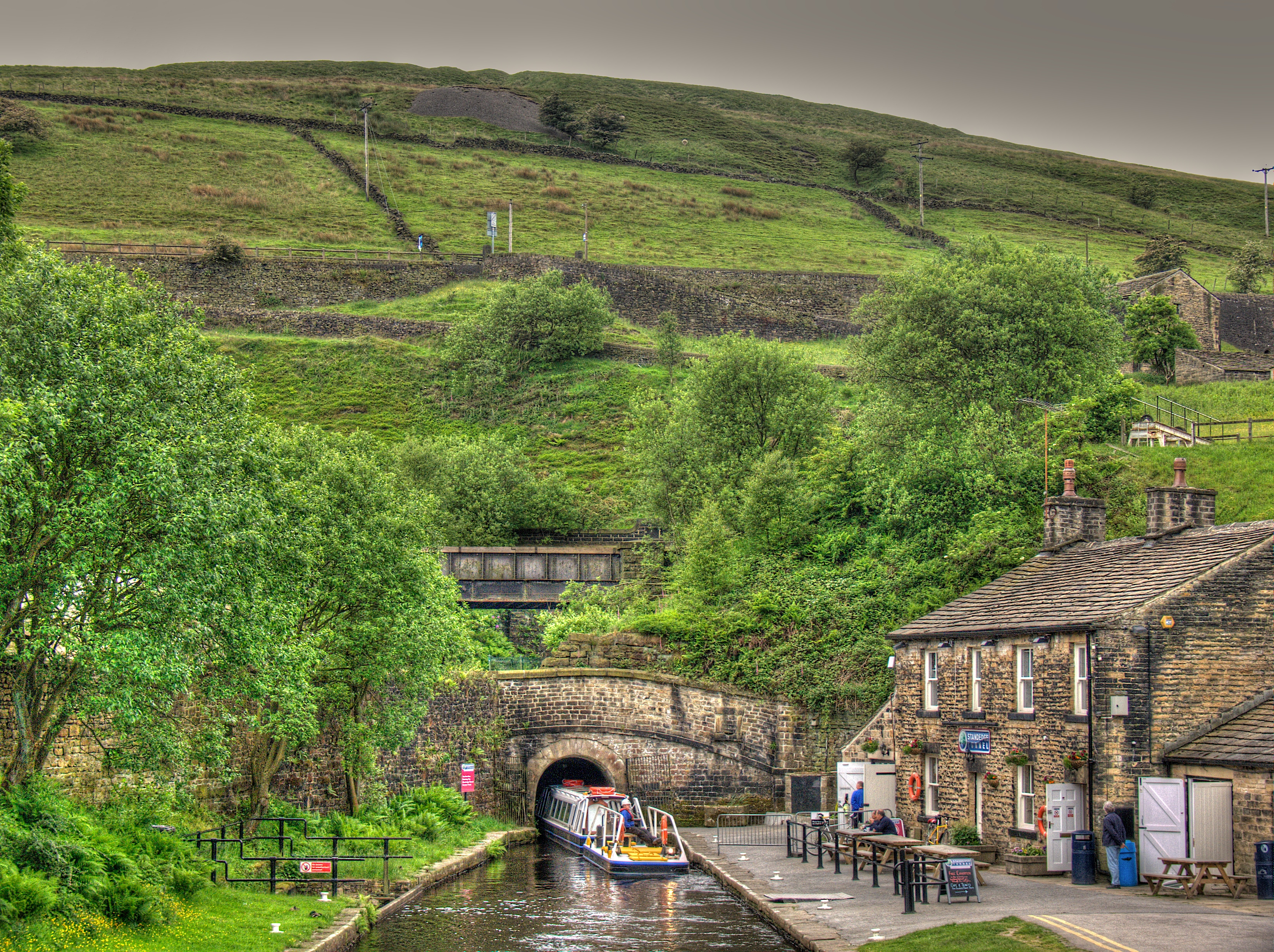 Entrance to Standedge Tunnel, Marsden, West Yorkshire, England.